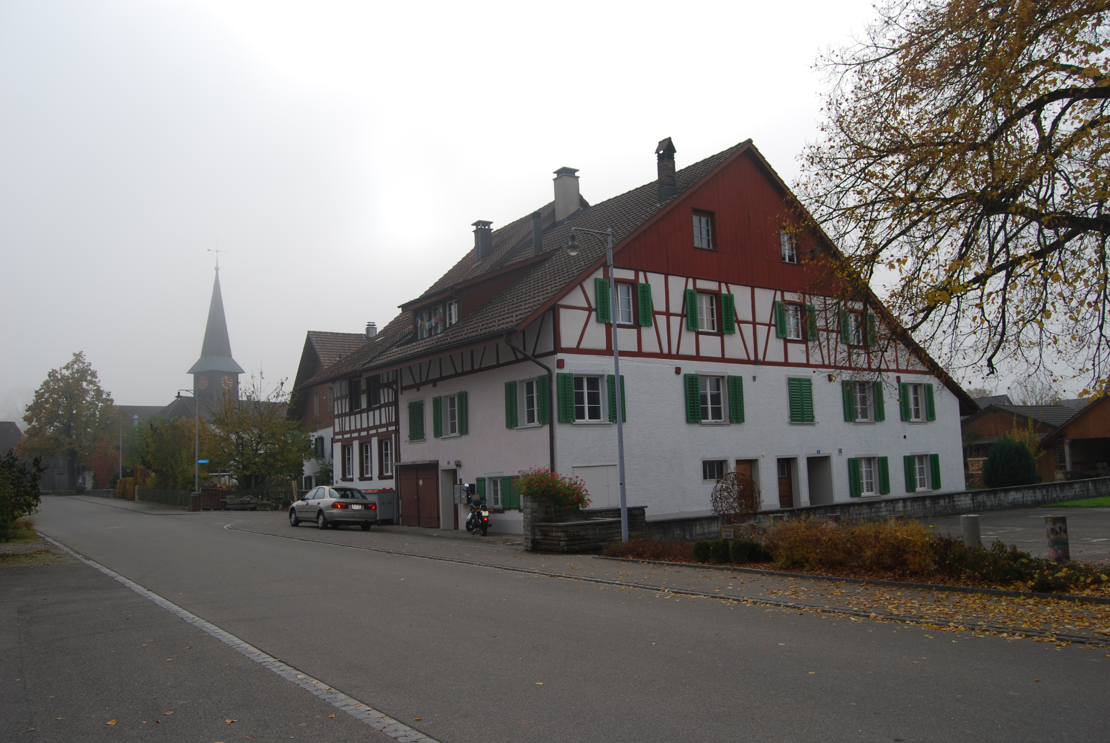 Dorf, canton of Zürich, SwitzerlandEsperanto: Dorf, Kantono Zuriko, Svislando